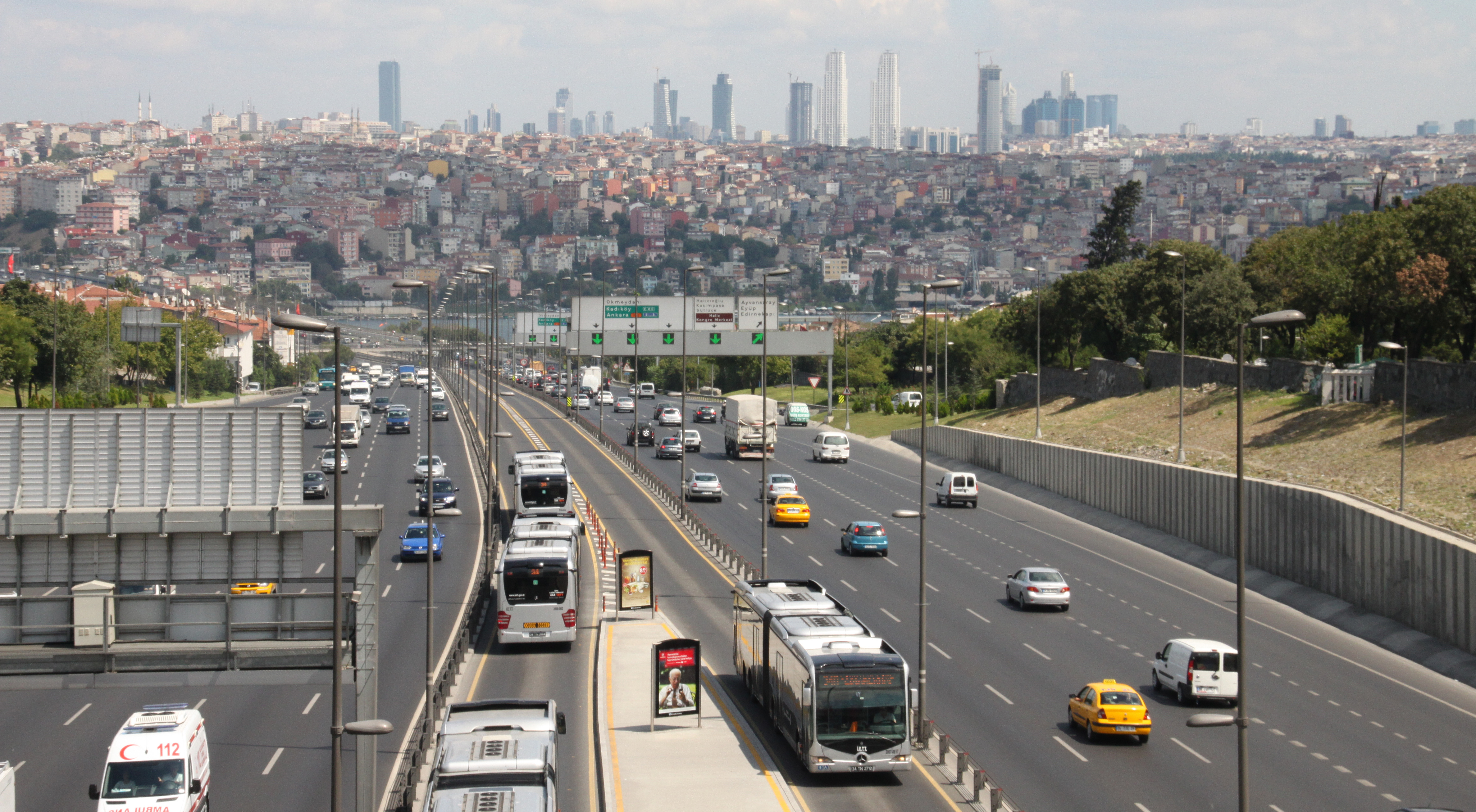 The Istanbully Metrobus.